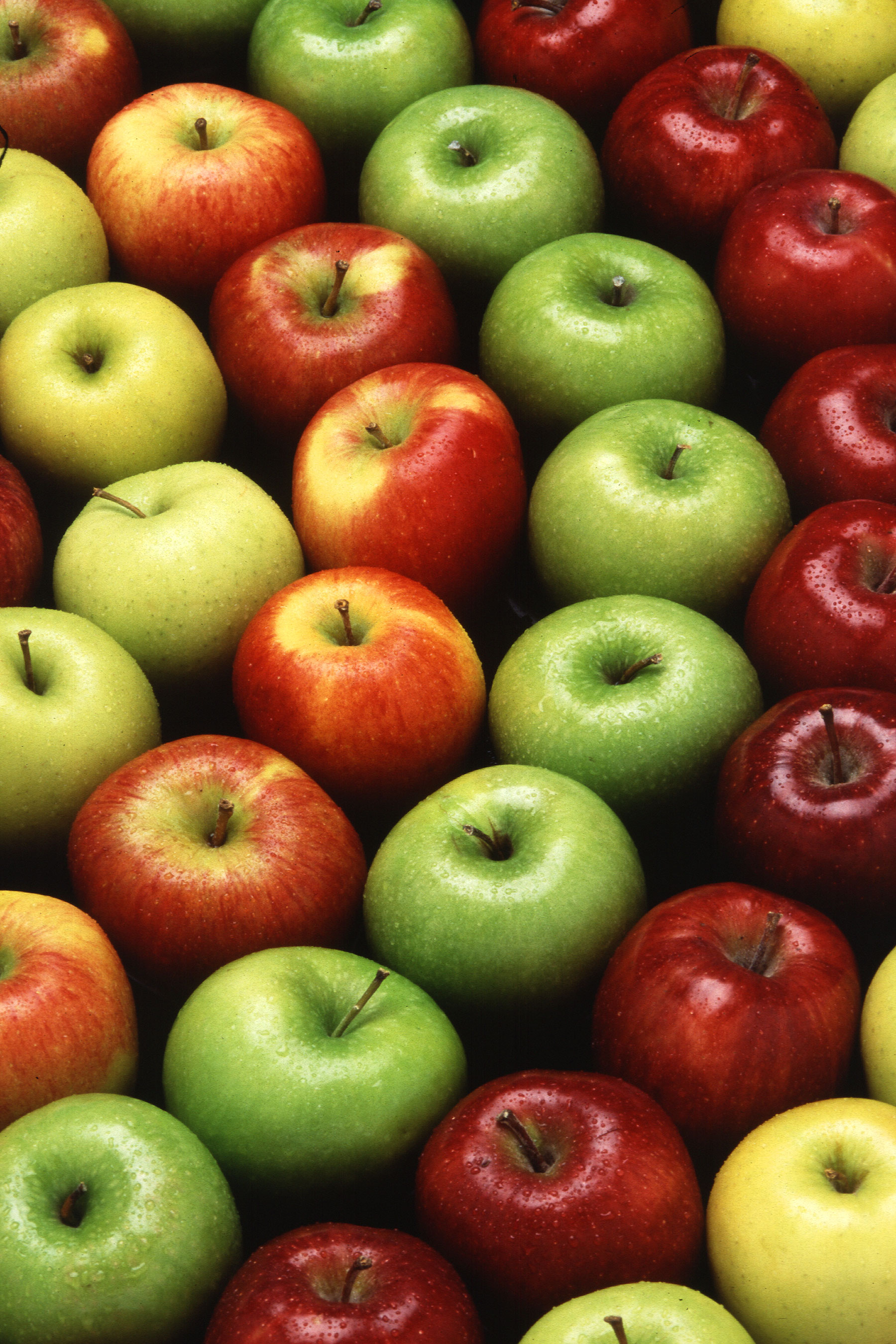 Apples are an all-American success story-each of us eats more than 19 pounds of them annually.